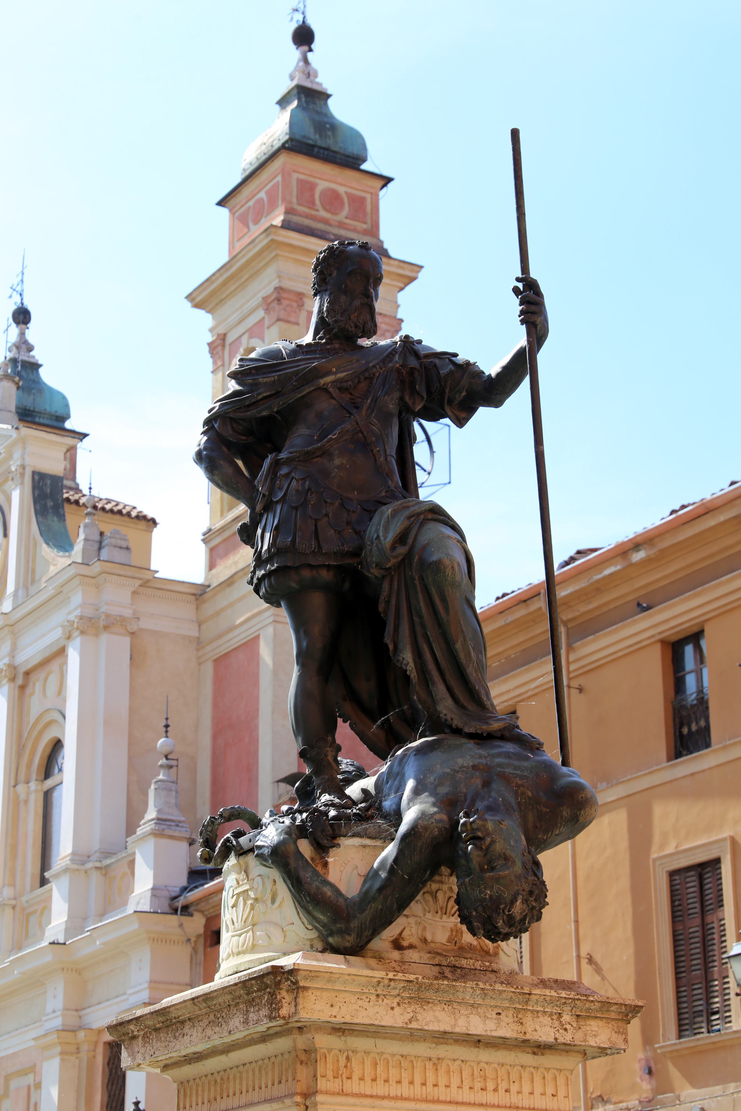 Guastalla